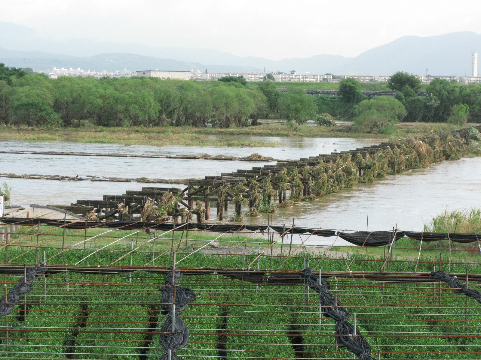 Kōzuyabashi Bridge broken by typhoon Melor